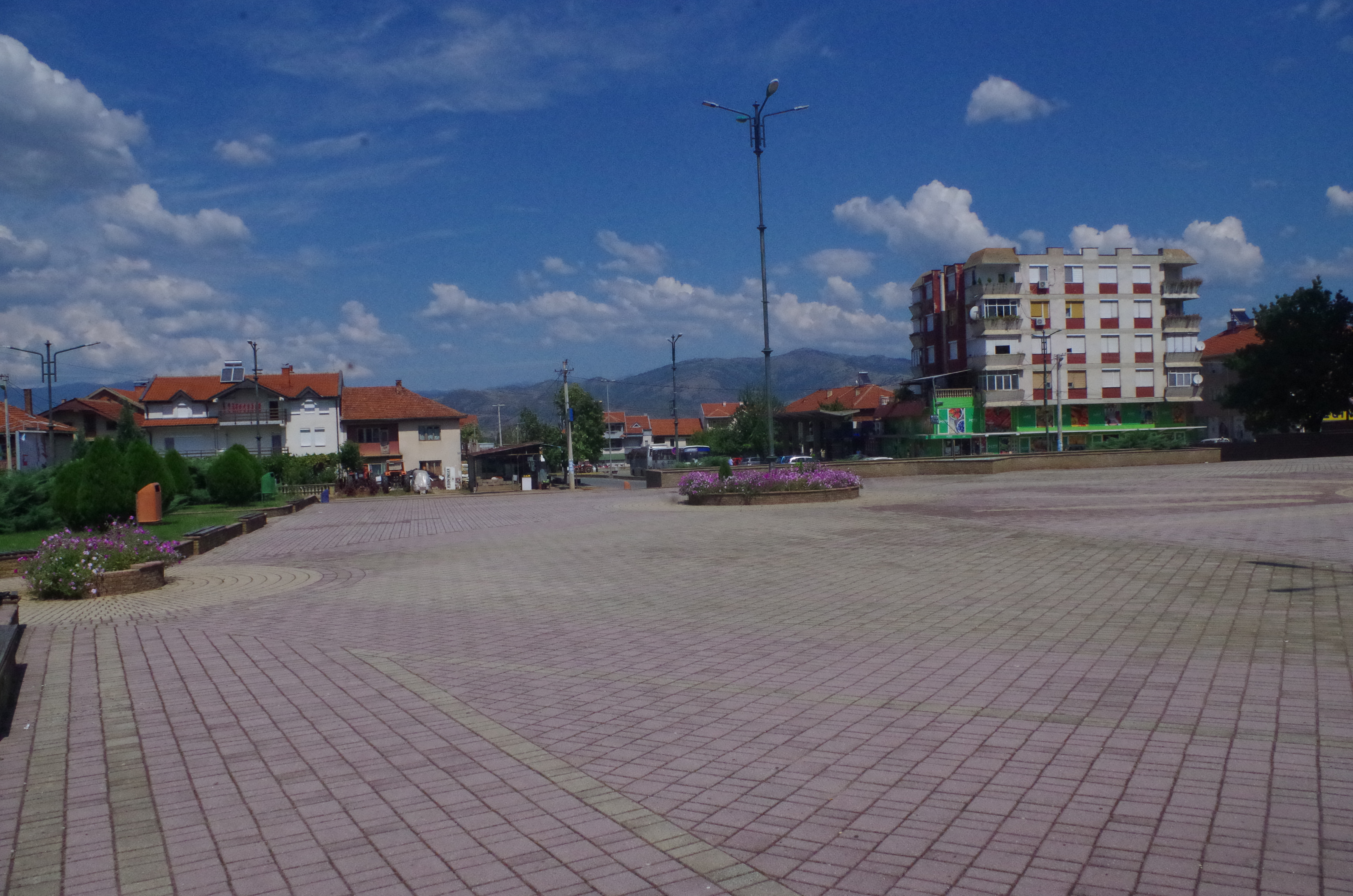 The new main square in Vinica, Macedonia